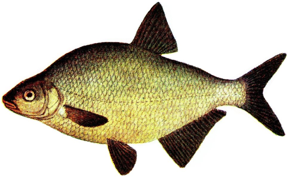 Carp bream (Abramis brama) from Iduns kokbok, author died 1933, scanned by Projekt Runeberg.